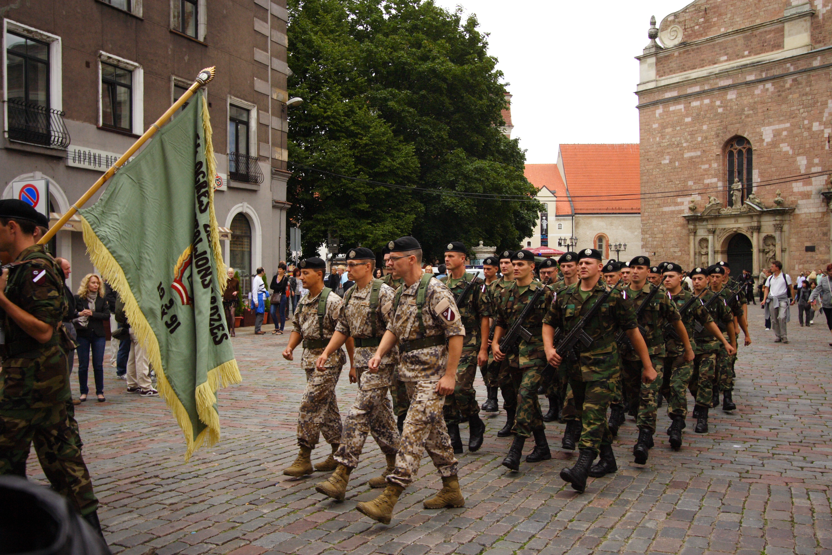 Zemessardze's parade at 20 anniversary in Riga, 14.08.2011